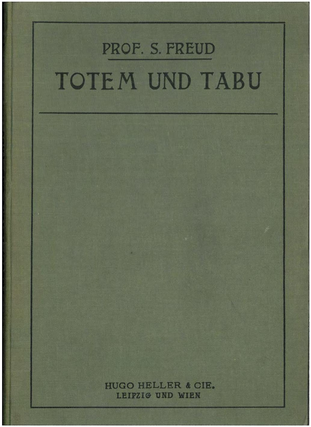 Cover of S. Freud, Totem und Tabu, 1st ed